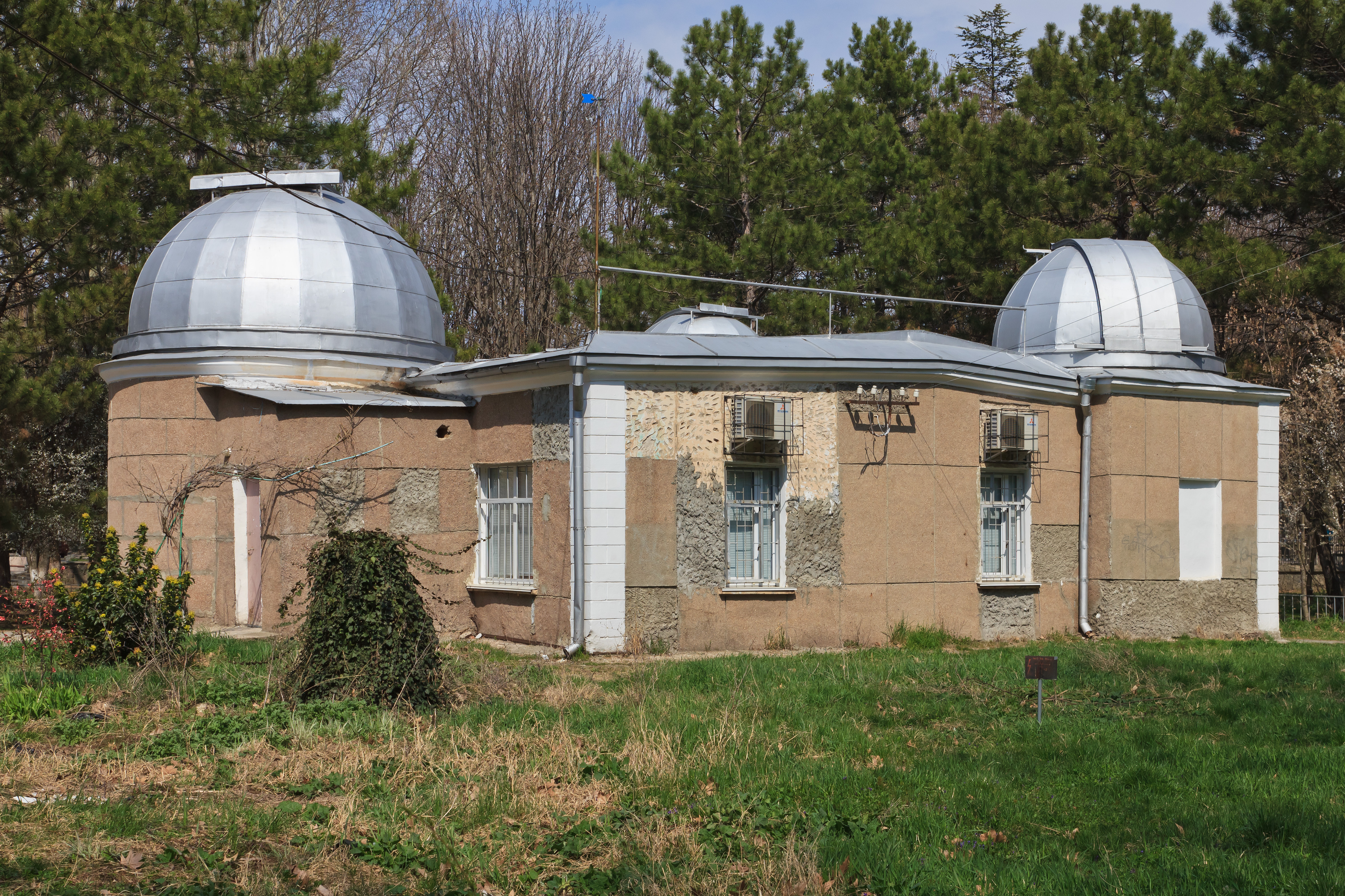 The building of the Astronomical Observatory in Simferopol, Crimean Peninsula.